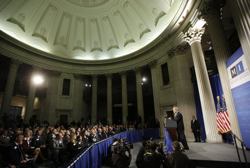 George W. Bush at Manhattan Institute sponsored speech at Federal Hall on November 13, 2008